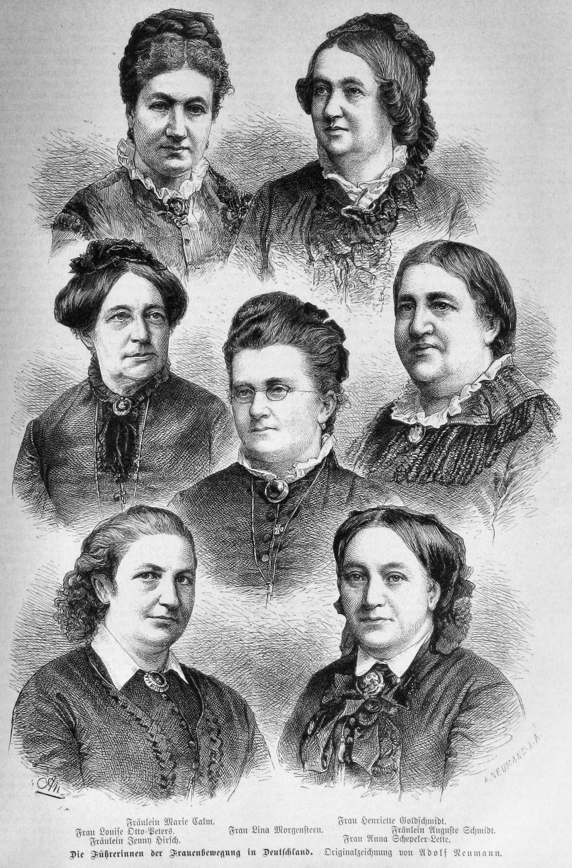 caption: "Die Führerinnen der Frauenbewegung in Deutschland. Originalzeichnung von Adolf Neumann.Fräulein Marie Calm. Frau Henriette Goldschmidt.Frau Louise Otto-Peters. Frau Lina Morgenstern. Fräulein Auguste Schmidt.Fräulein Jenny Hirsch. Frau Anna Schepeler-Lette."